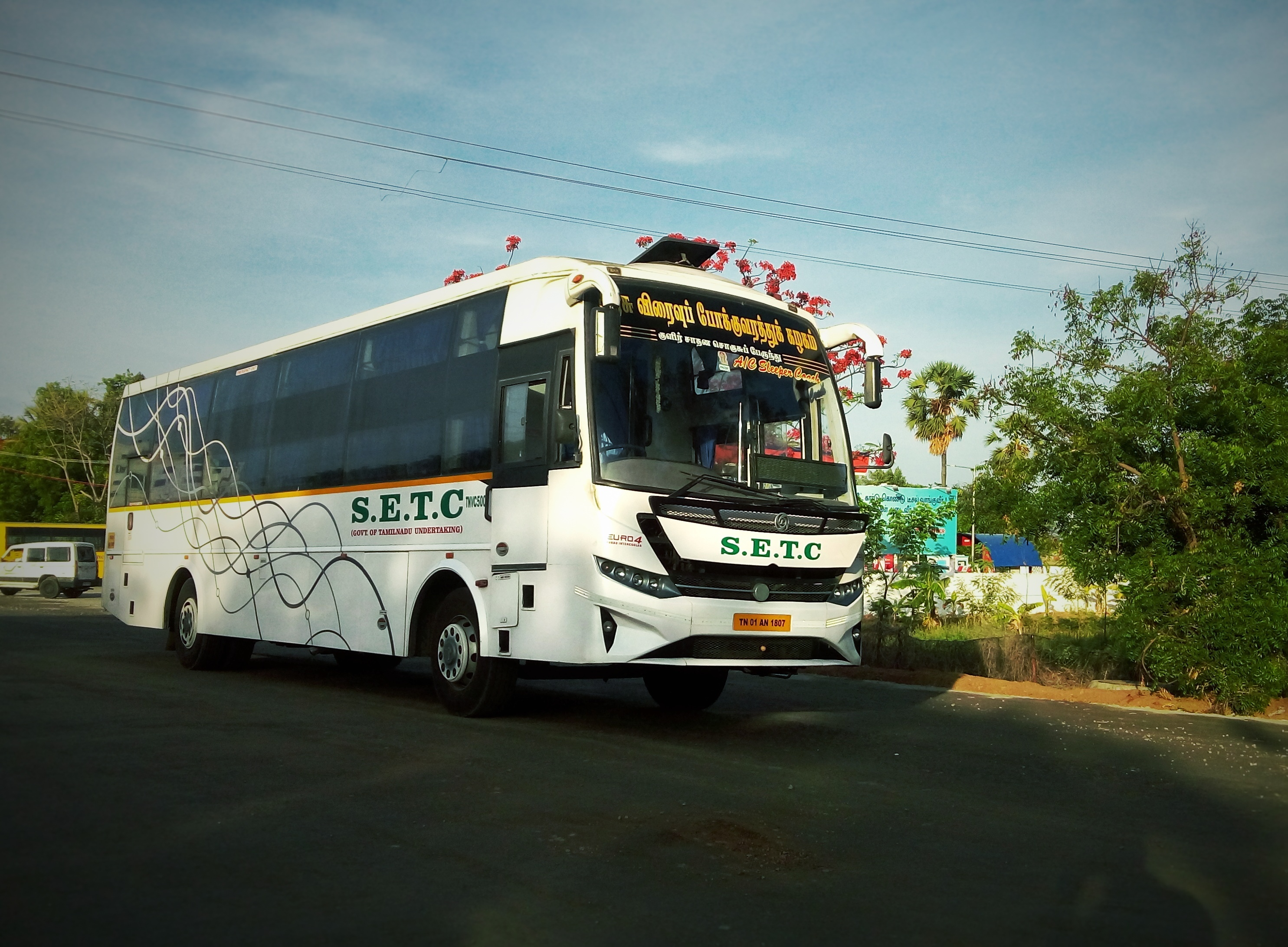 AC Sleeper Bus of SETC